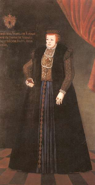 Portrait of Orsolya Kanizsay, wife of Tamás Nádasdy (1498-1562)